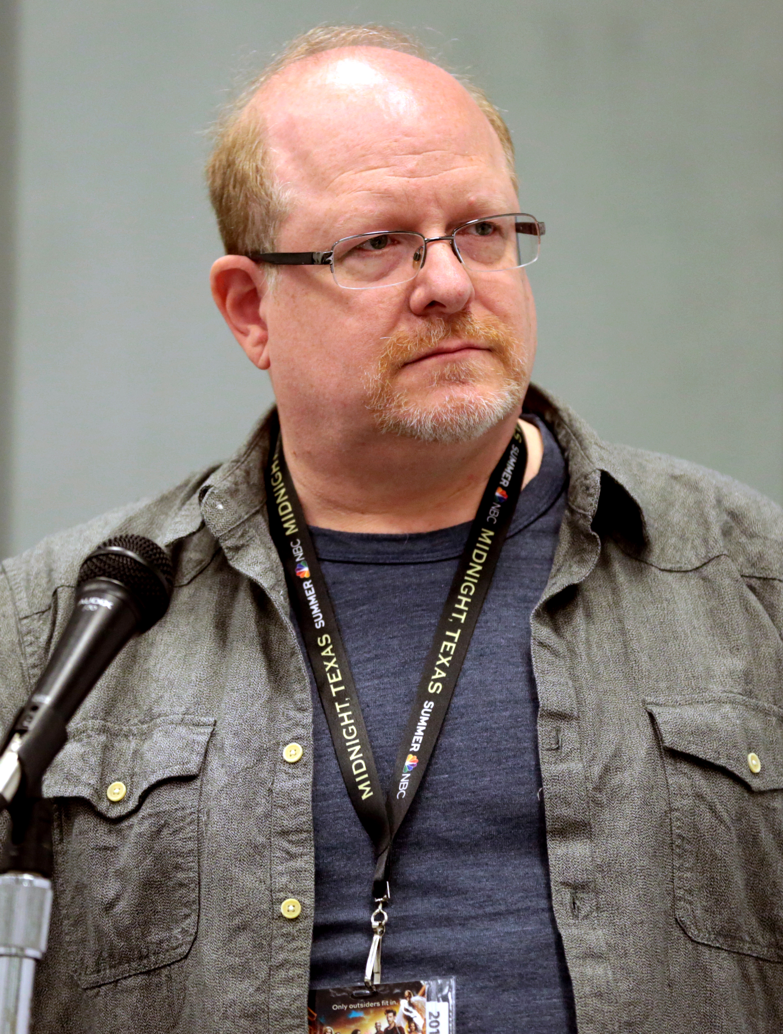 Mark Waid speaking at the 2017 WonderCon in Anaheim, California.